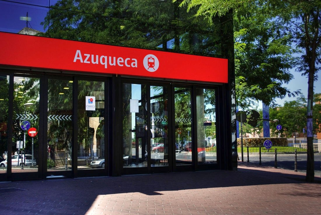 Azuqueca train station (Guadalajara, Spain).